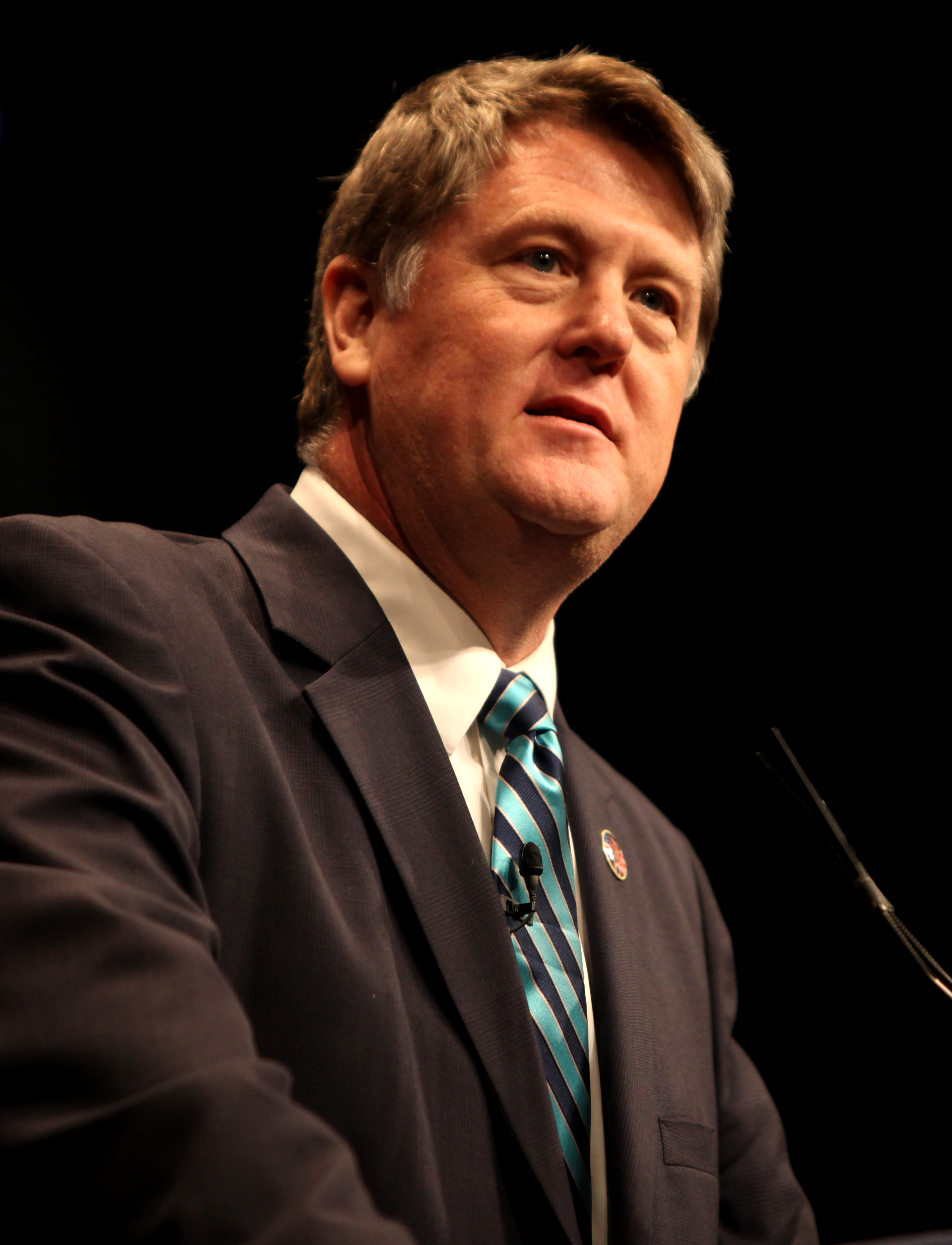 Floyd Brown speaking at CPAC in Washington D.C. on February 11, 2012.